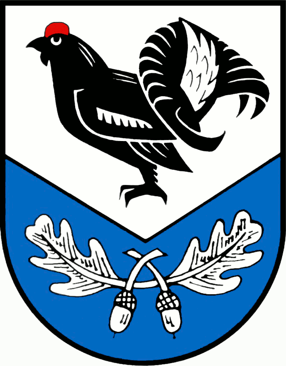 Coat of Arms of Wesendorf First upload in de-wp: Ivy (18:16, 17. Okt. 2005)